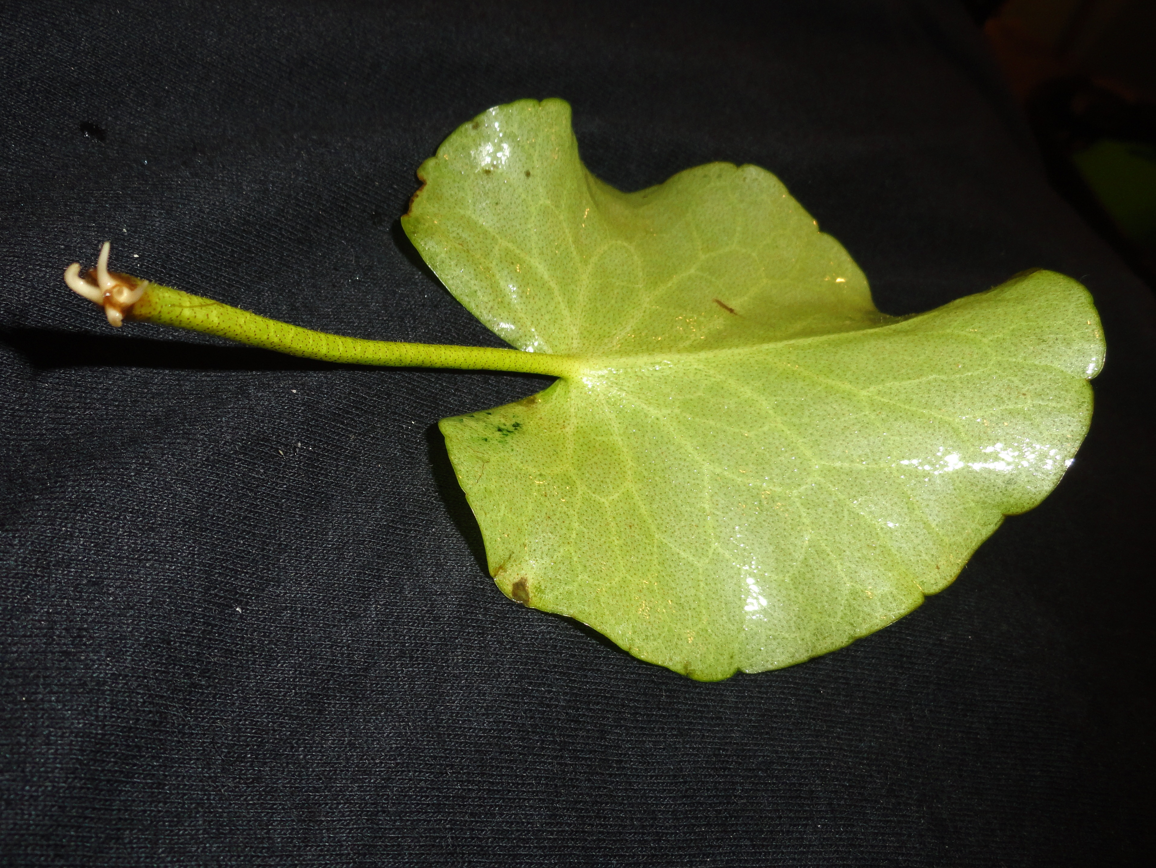 Aquarium specimen of Nymphoides Aquatica. This was propagated by leaf clipping. After floating freely for 2 weeks the stalk is sprouting roots.